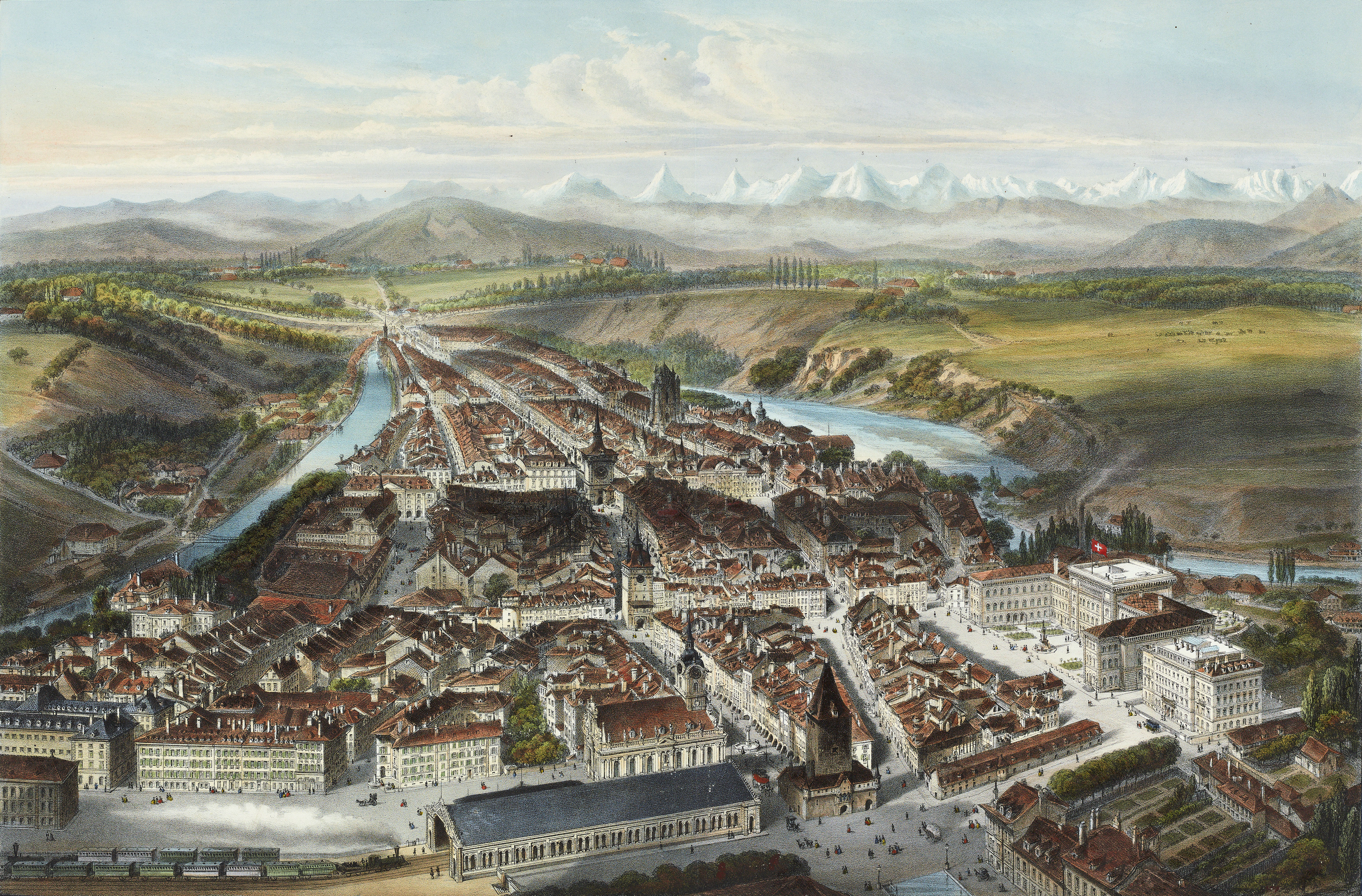 The city of Bern, Switzerland, in 1858. Along the central axis, the three medieval guard towers, from front to back: Christoffelturm (now destroyed), Käfigturm, Zytglogge.